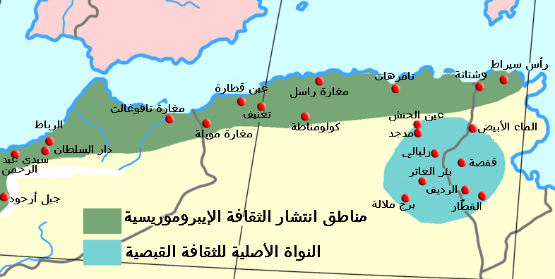 The Ibero-Maurisian Culture, in the Maghreb and Sahara of North Africa